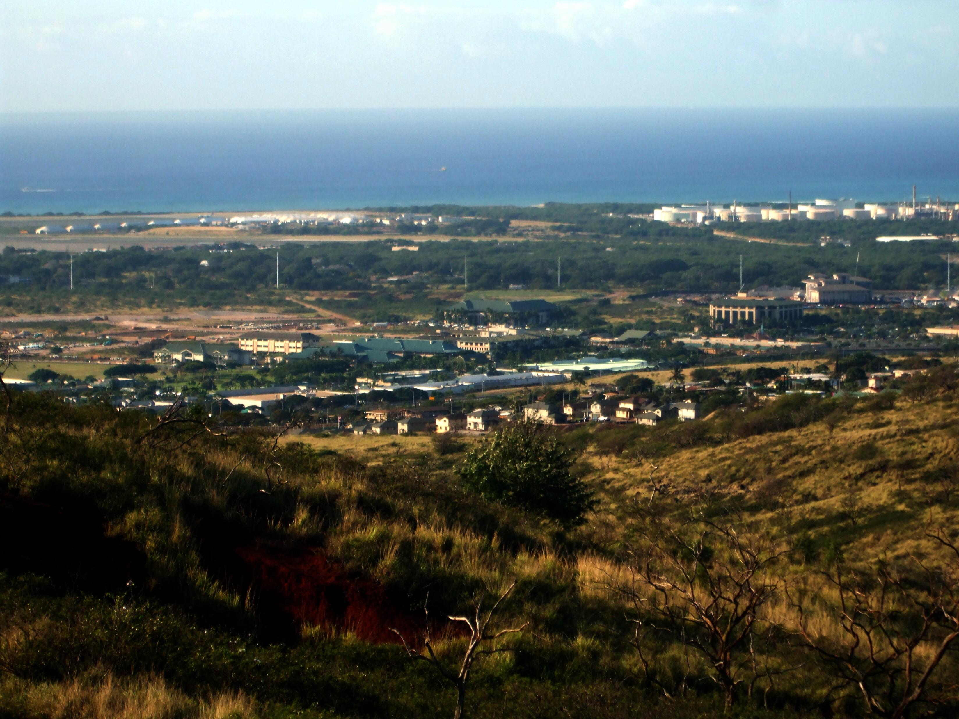 Photo of Kapolei City Center taken from Makakilo Heights on 11 March 2009